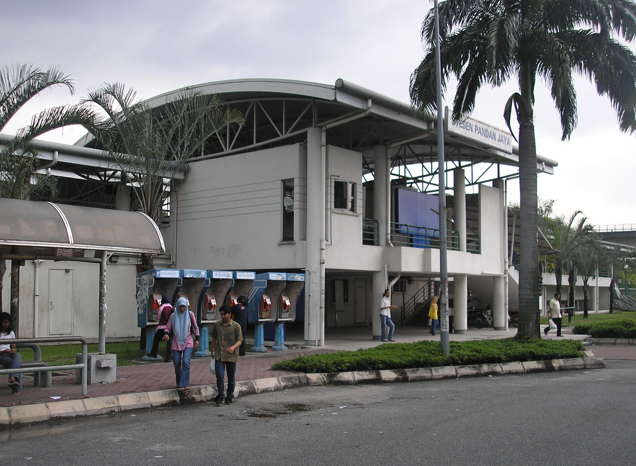 The exterior of the Pandan Jaya LRT station (Ampang Line), Selangor, Malaysia.